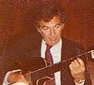 Jazz guitarists Bucky and John Pizzarelli at the Village Jazz Lounge in Walt Disney World